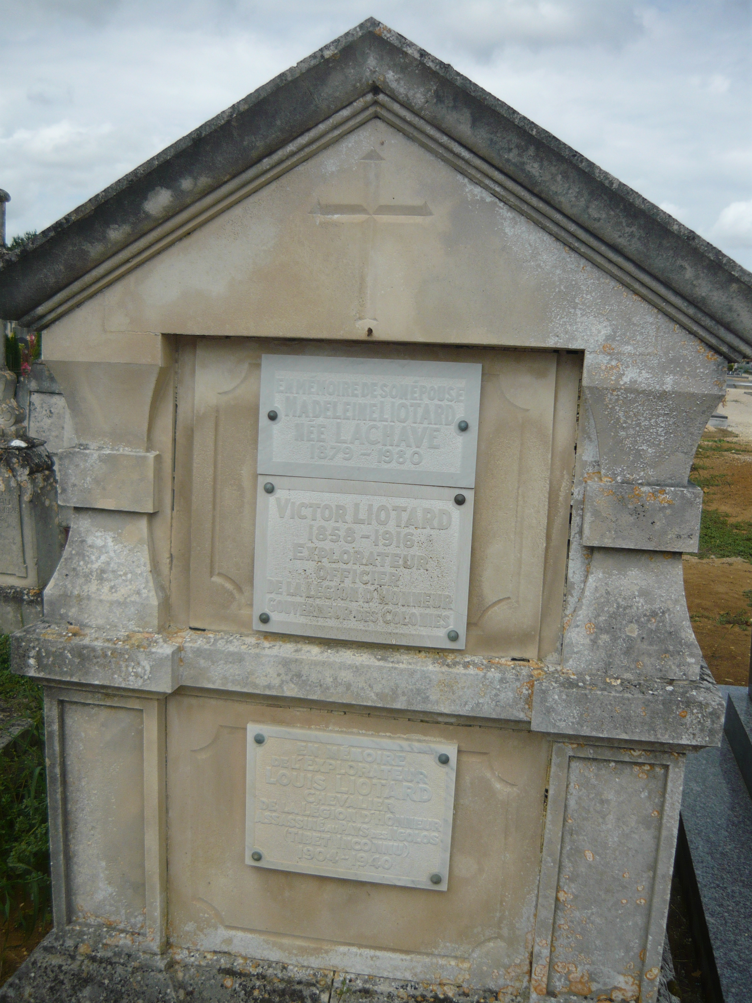 Tombe de Victor Liotard